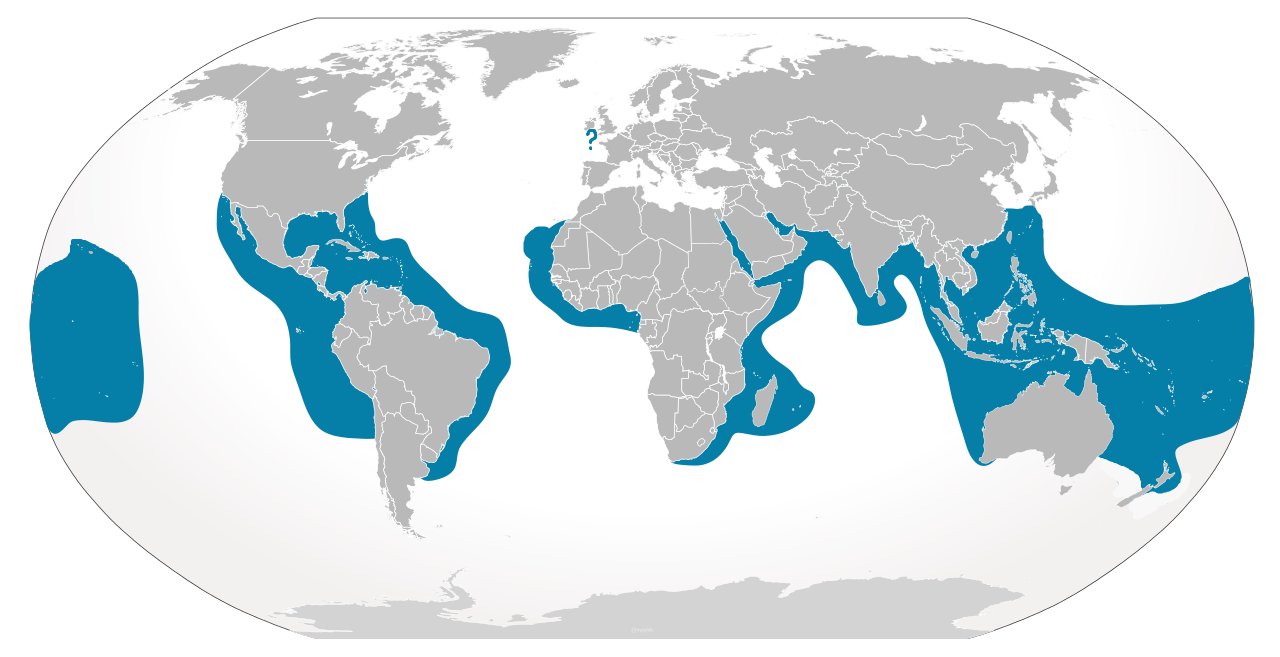 Range of tiger shark (Galeocerdo cuvier)